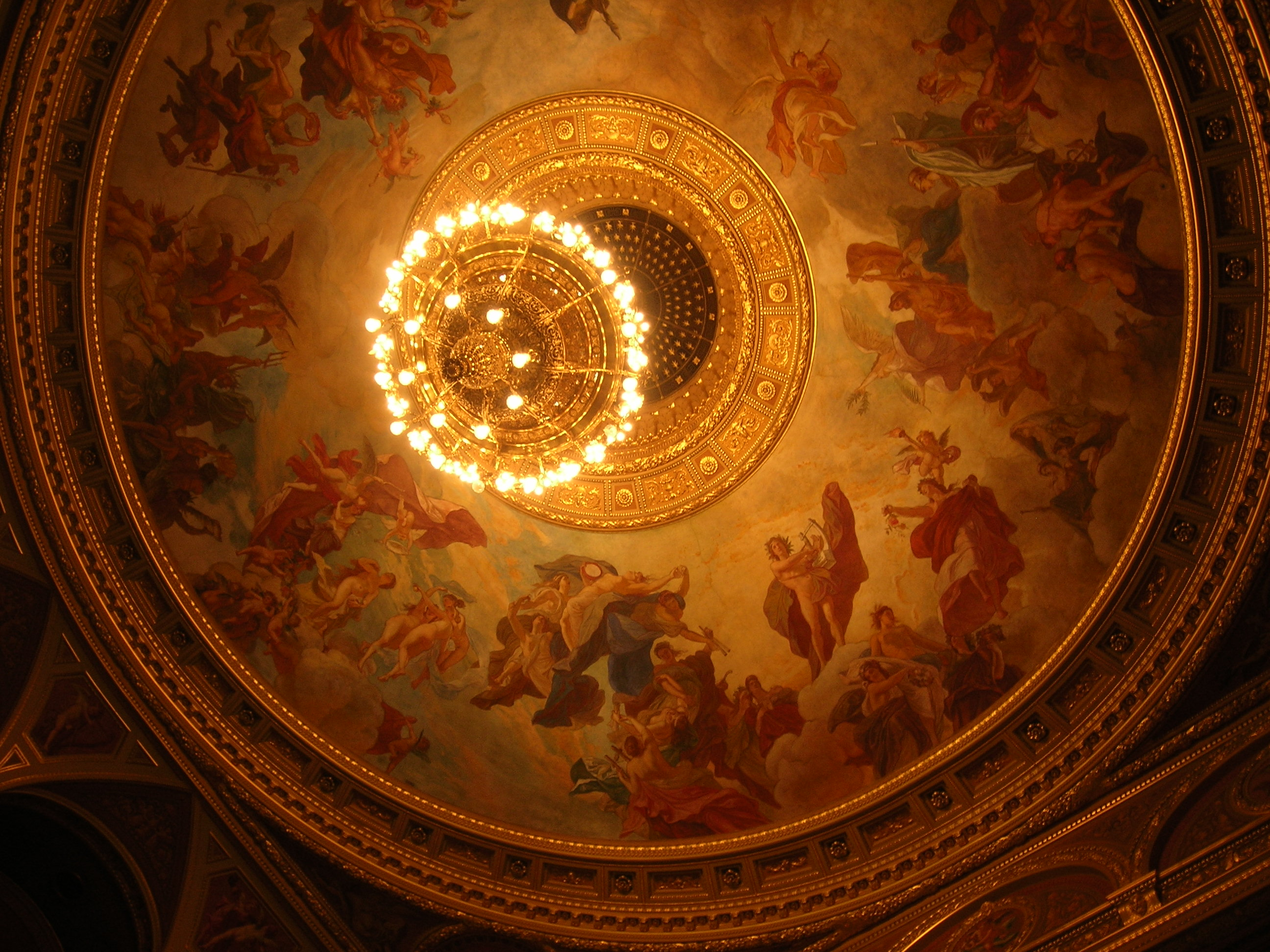 Inside the Opera of Budapest